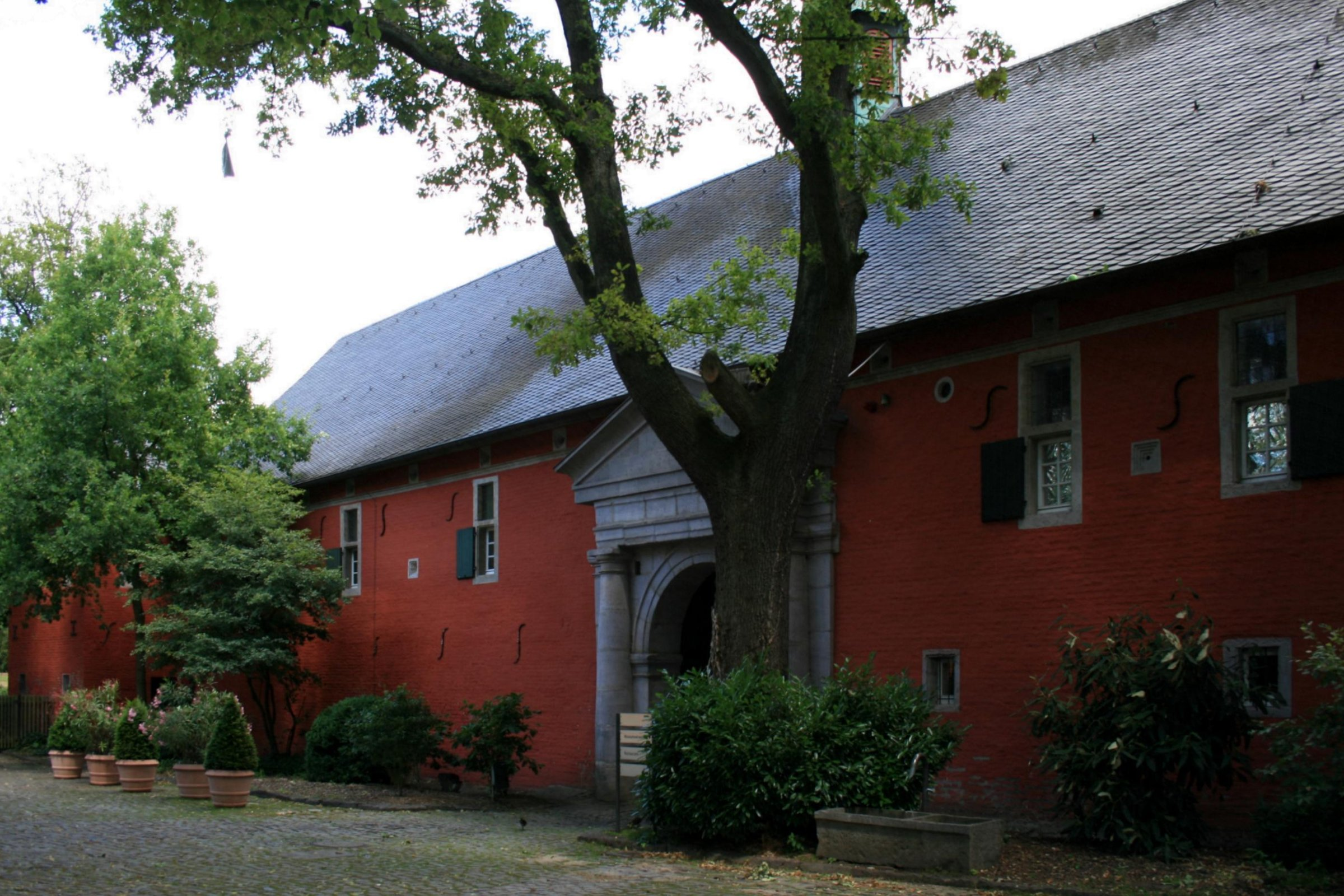 Cultural heritage monument No. Sch 006b in Mönchengladbach